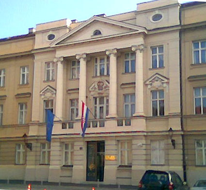 Croatian Parliament